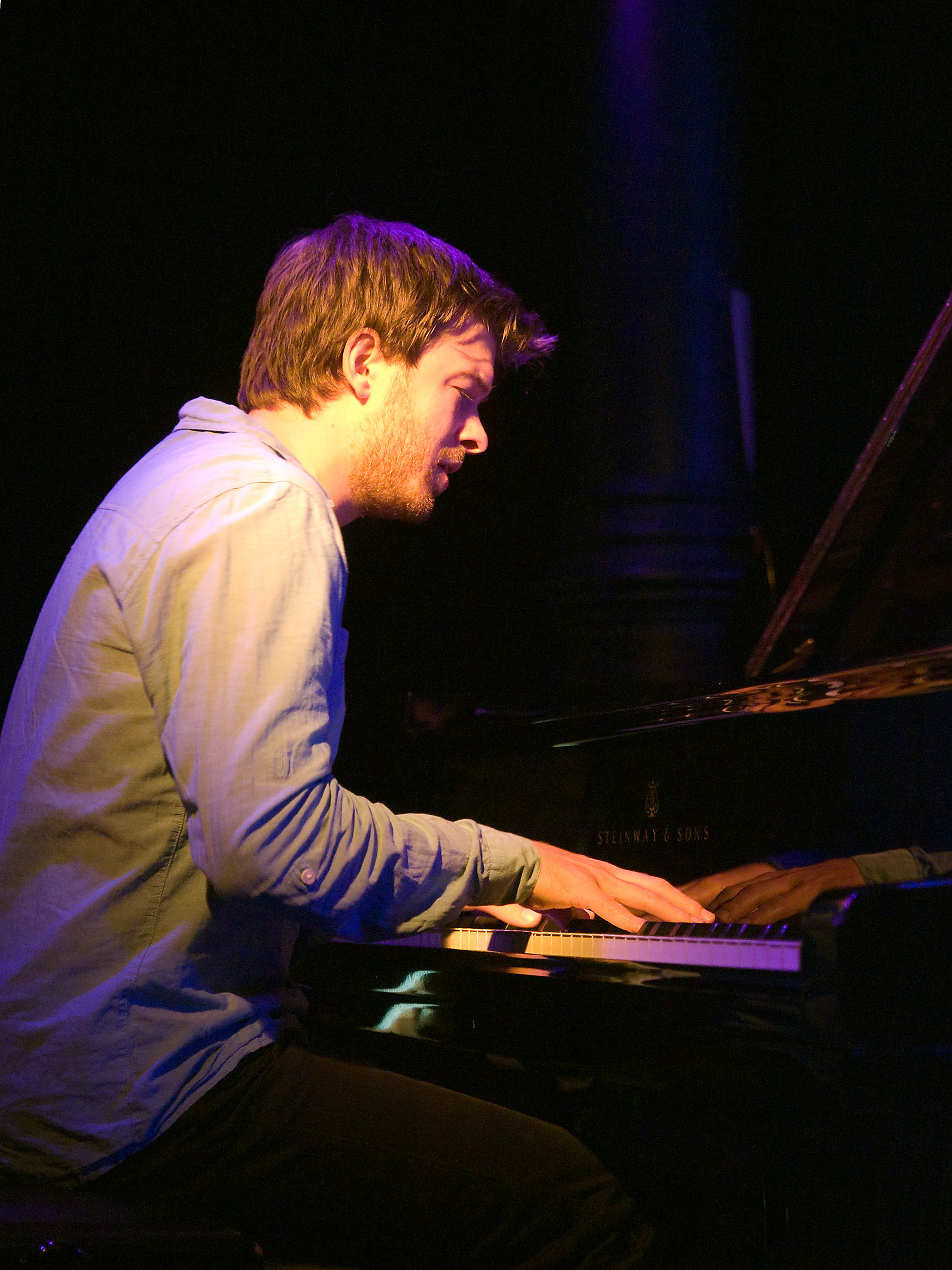 Colin Vallon, jazz pianist; Picture taken in Jazz Club Unterfahrt, Munich/Bavaria